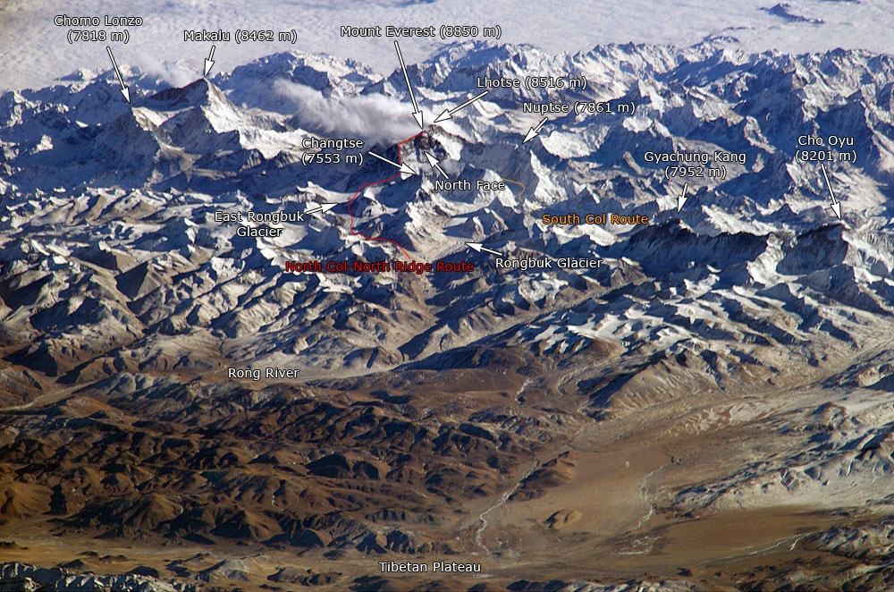 The Himalayan mountain range with Mount Everest as seen from the International Space Station looking south-south-east over the Tibetan Plateau. Four of the world's fourteen eight-thousanders, mountains higher than 8000 metres, can be seen, Makalu (8462 m), Everest (8850 m), Lhotse (8516 m) and Cho Oyu (8201 m). The South Col Route is Mount Everest's most often used climbing route.